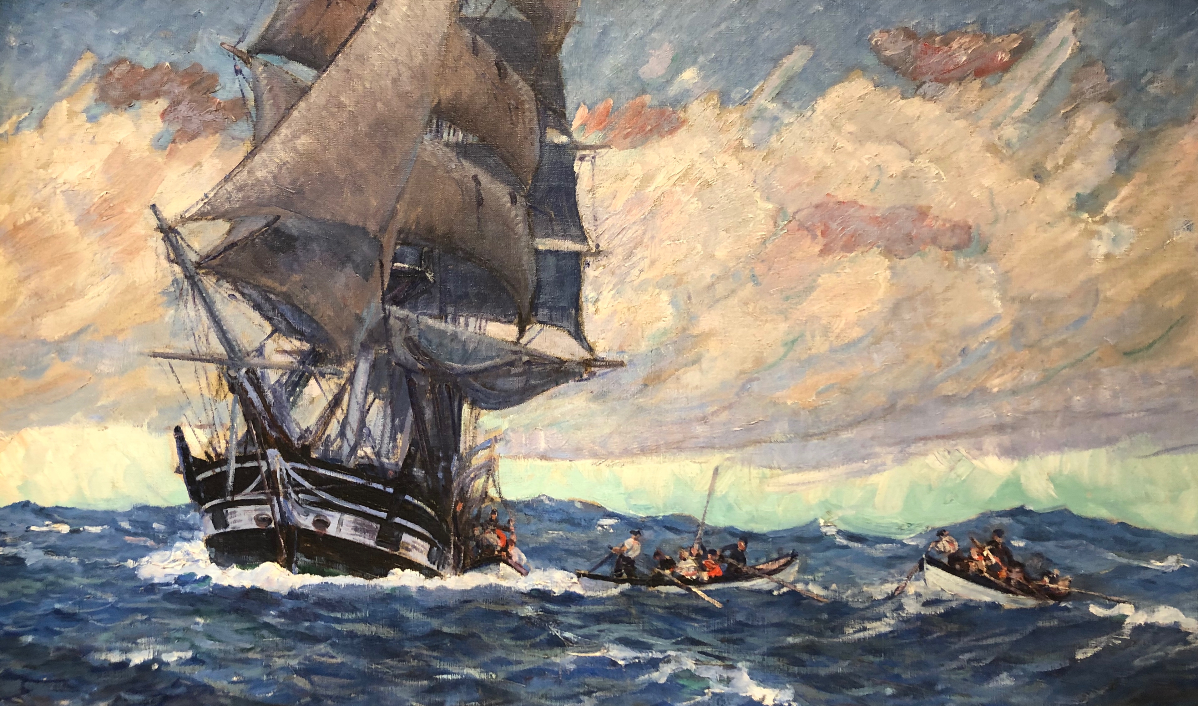 Lowering Boats, 1927 Clifford Warren Ashley (1881-1947) oil on canvas New Bedford Whaling Museum purchased in memory of Mildred Ashley Gould 1977.23.2